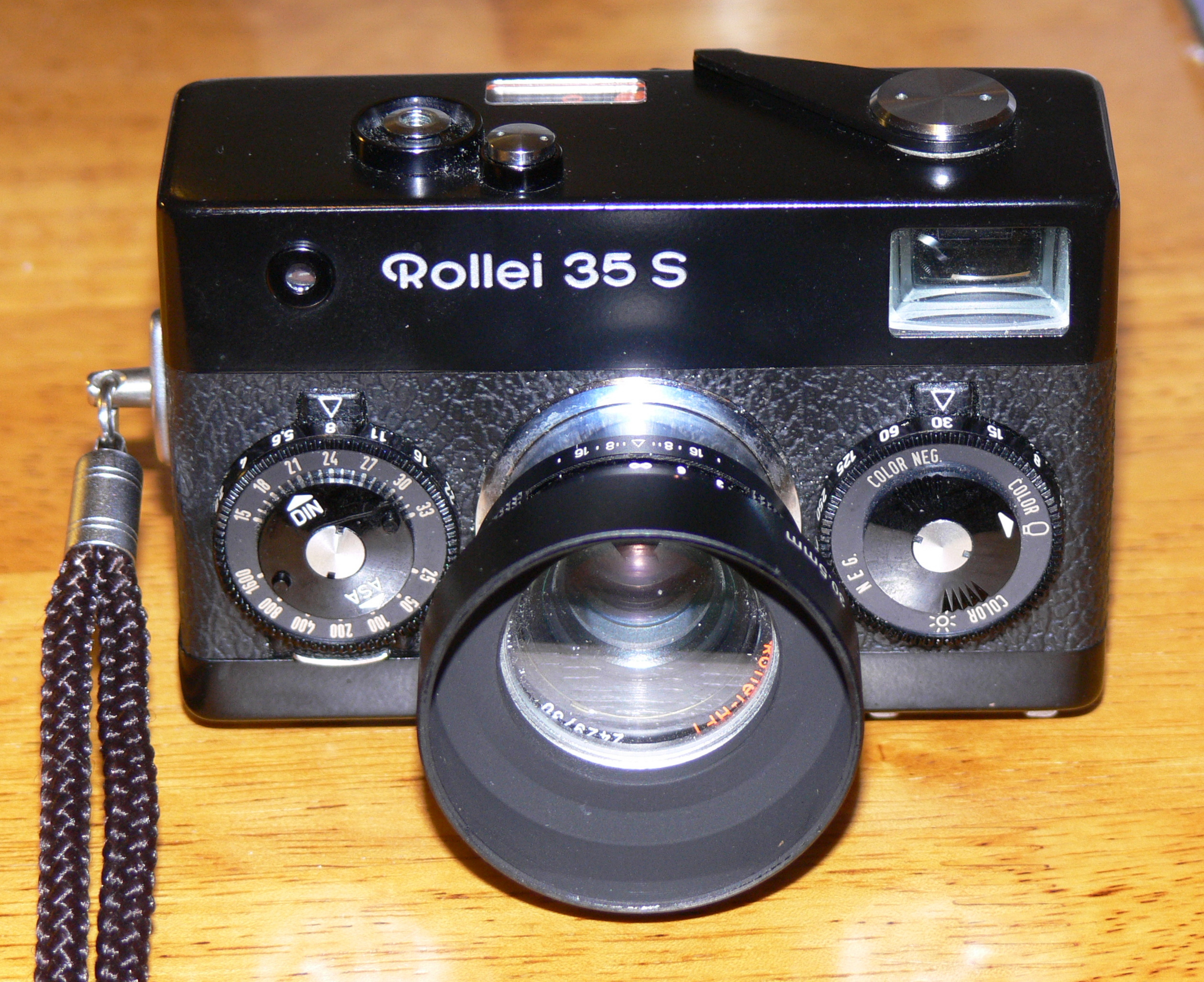 Black Rollei 35S with metal lens hood